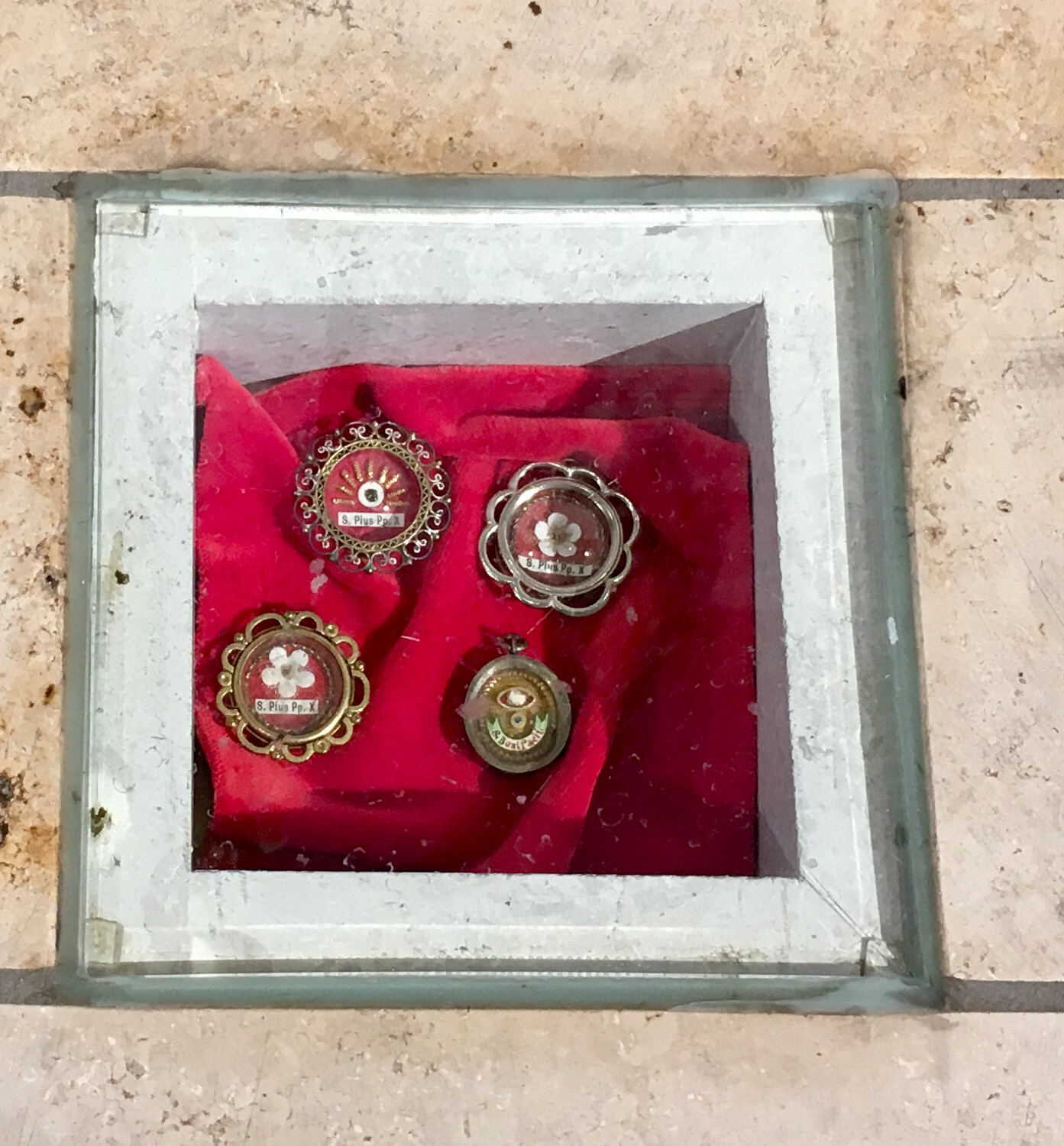 Reliquiary of St Pius X and St Boniface